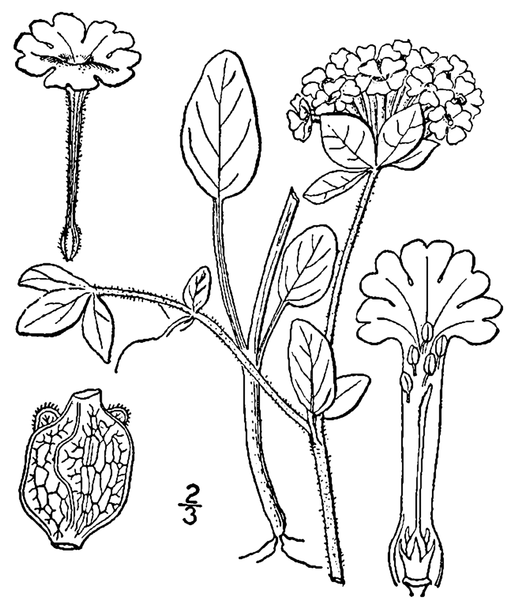 Snowball Sand Verbena. Drawing.